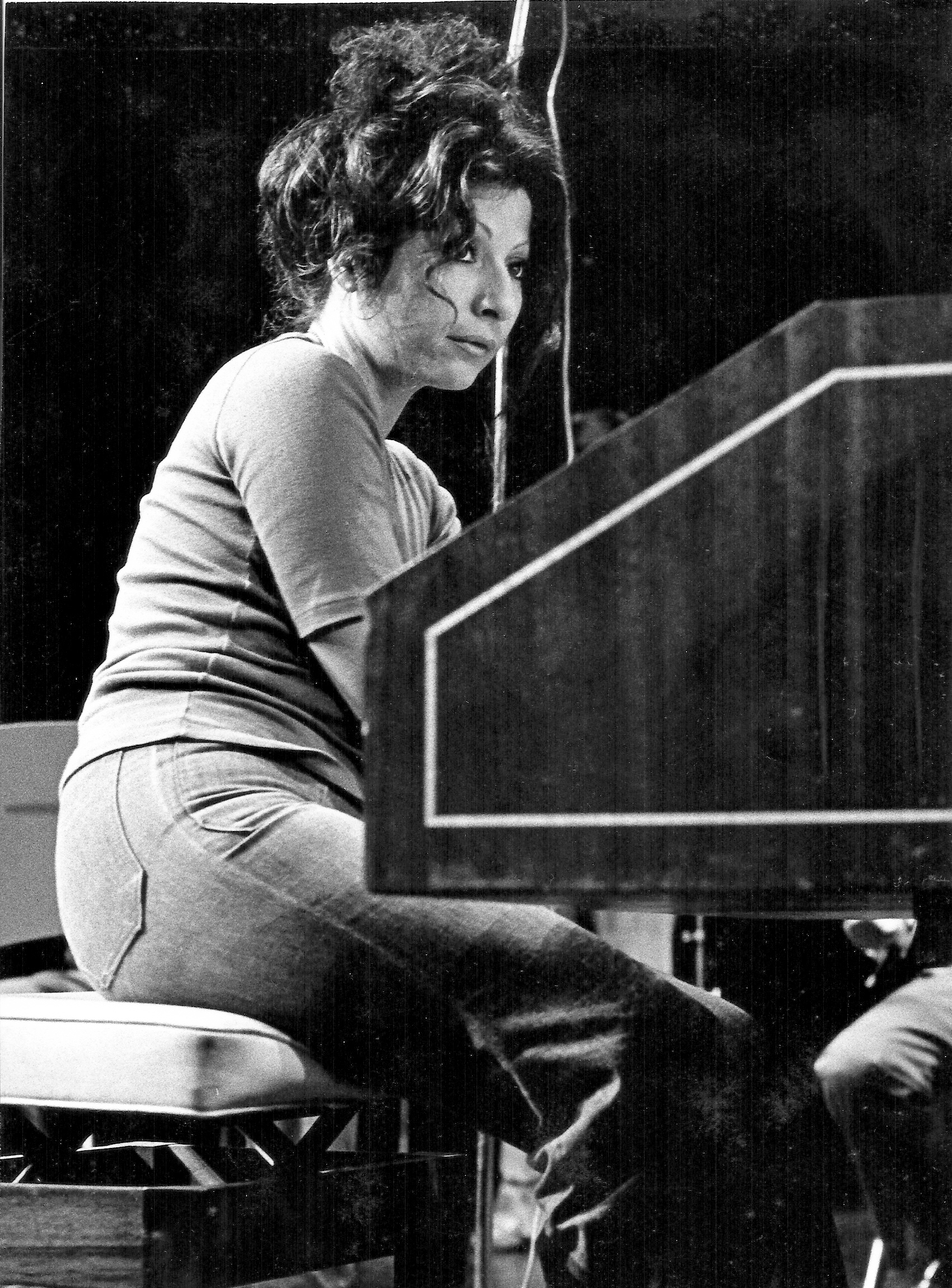 Harpsichord player Elisabeth Chojnacka, during a rehearsal for the 1972 Paris Summer Festival. The conductor was Marius Constant.